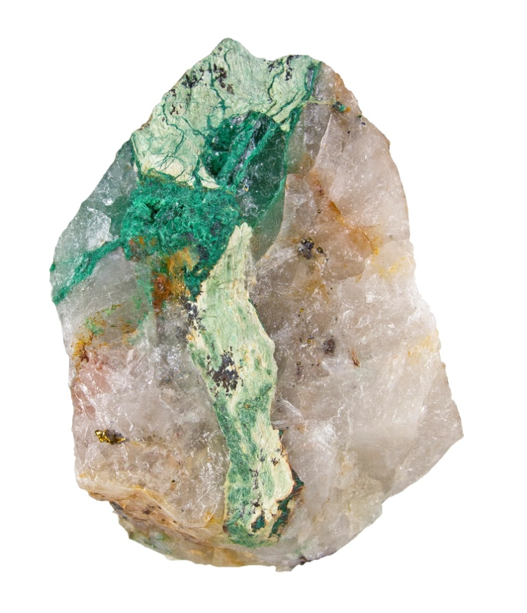 Beyerite and Malachite on Quartz Locality: A Lone Hand Mine, Malbon, Cloncurry, Cloncurry Shire, Queensland, Australia Size: 5.5 cm x 3.8 cm x 2.9 cm This rare and unusual carbonate is bismuth-rich and forms a pastel green, porcelainous vein on massive quartz. The vein is 3 cm in length and is associated with darker green malachite. Ex. Al Ordway Collection.